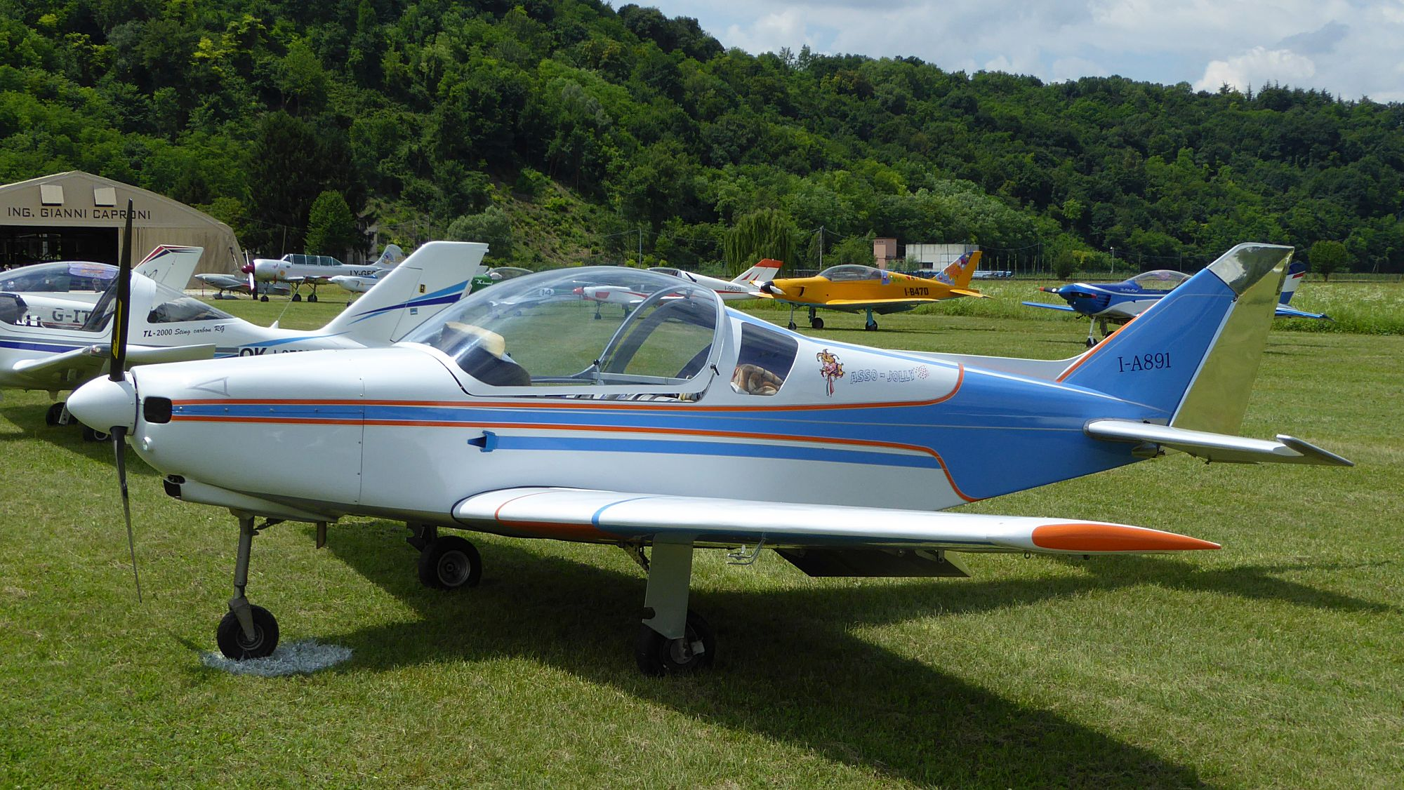 Asso Aerei V Jolly I-A891 taken at Nervesa della Battaglia, Italy